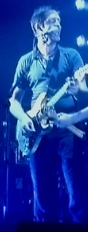 Radiohead Live@Blackpool, 12th May 2006 2: Johnny and Ed uniting on stage.